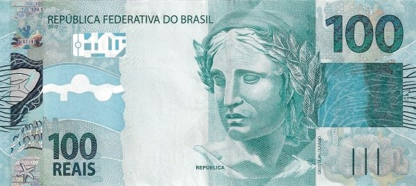 100 Brazil real Second Obverse